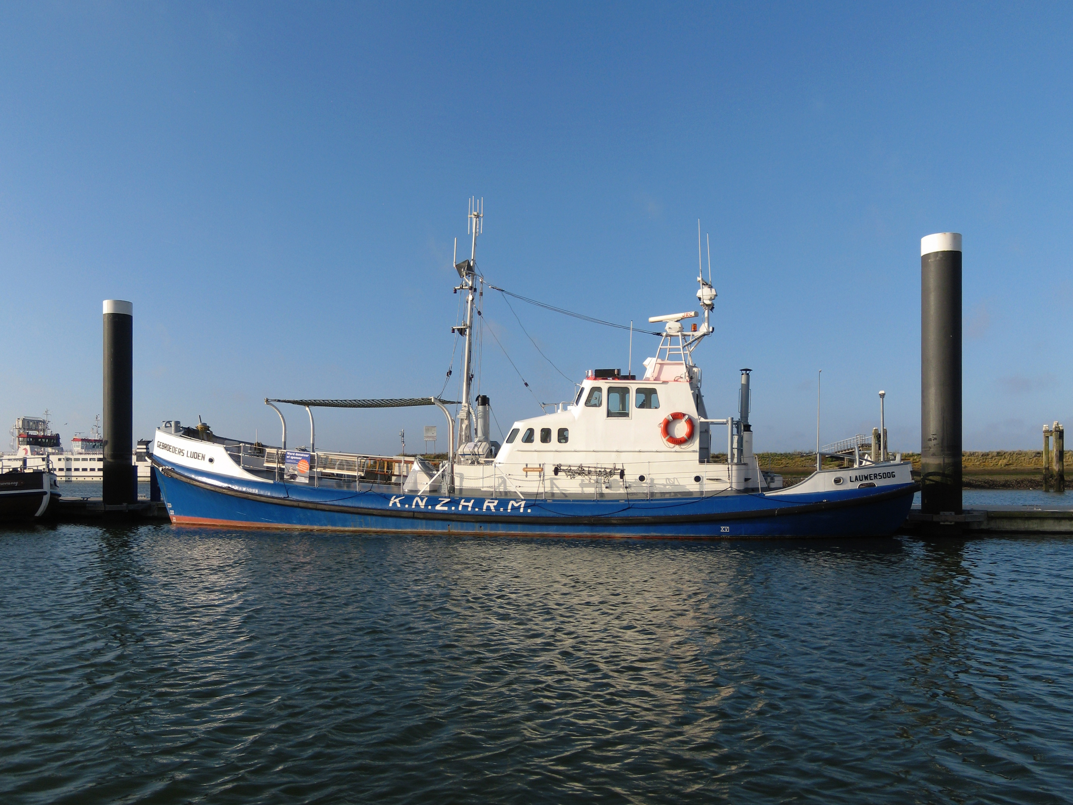 The former lifeboat Gebroeders Luden (1965) at its berth in Lauwersoog, a port in the Dutch province of Groningen.